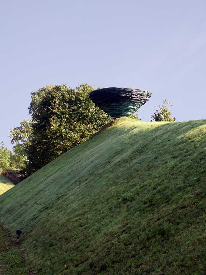 Österreichischer Skulpturenpark, Michael Kienzer, untitled, 1992/94